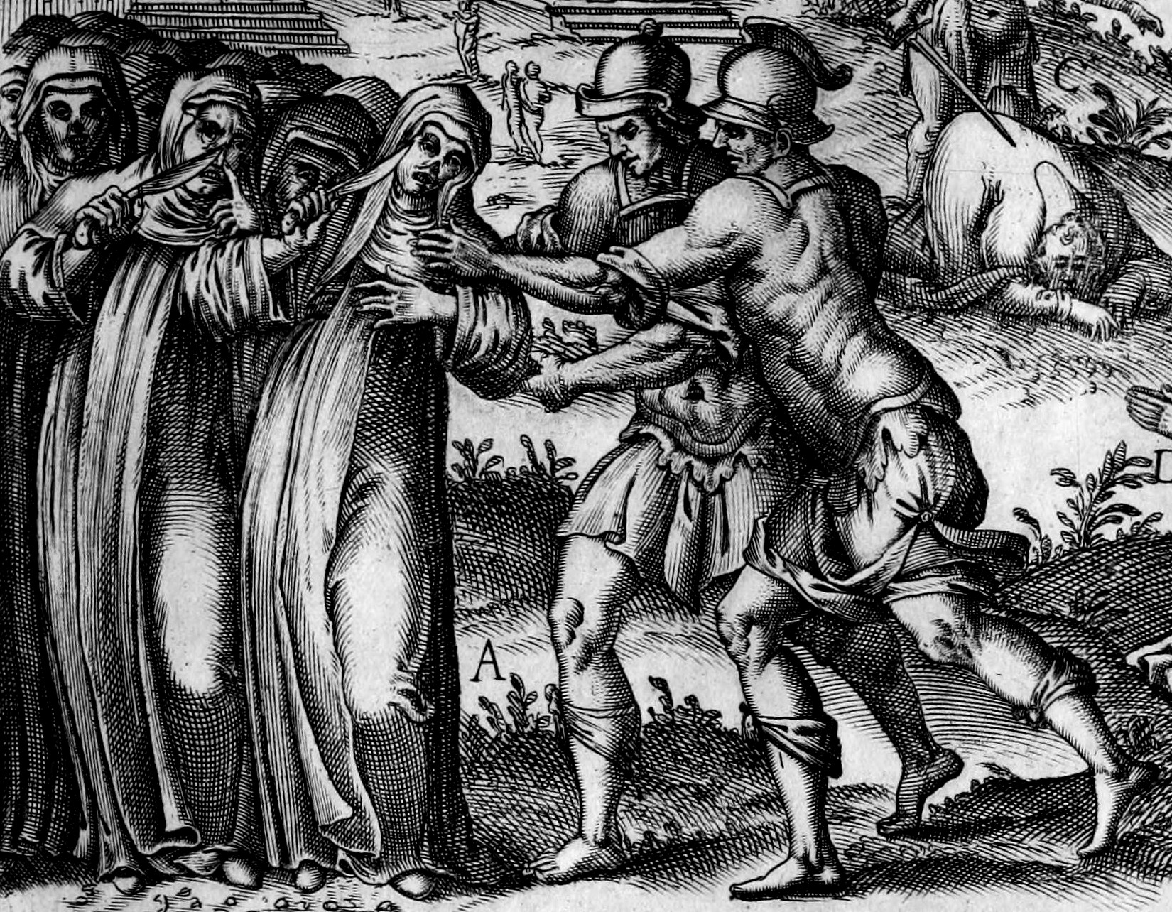 A sixteenth-century depiction of St Æbbe, a saint supposedly martyred by invading Vikings in 870.